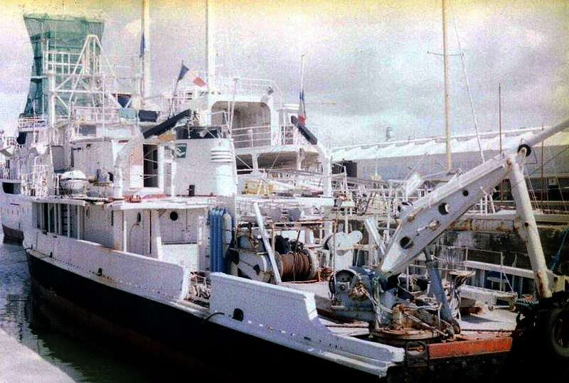 The Calypso, boat of Commandant Cousteau, in La Rochelle.